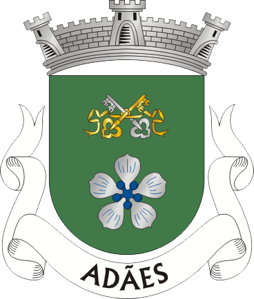 Crest of Adães, a parish in the municipality of Barcelos (Portugal)